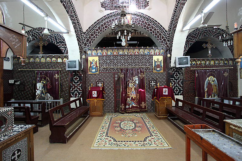 Inside the old church of Abū Seifein in Akhmim, Egypt